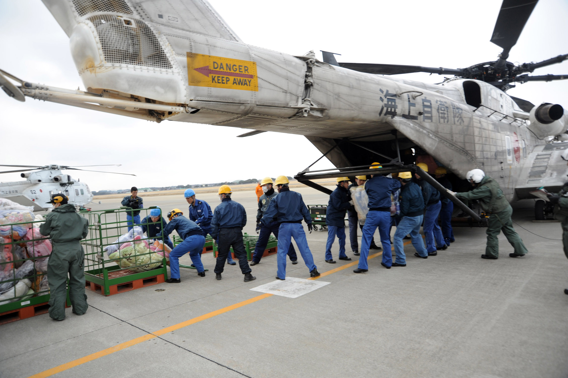 HACHINOHE, Japan (March 24, 2011) - Japan Maritime Self-Defense Force (JMSDF) service members from Fleet Air Wing II, load humanitarian aid supplies onto an MH-53E Sea Stallion helicopter at JMSDF Hachinohe Air Base. (U.S. Navy photo by Mass Communication Specialist 1st Class Matthew M. Bradley)